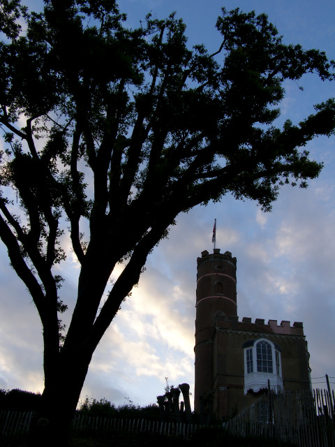 Luttrell's Tower, Calshot, Hampshire